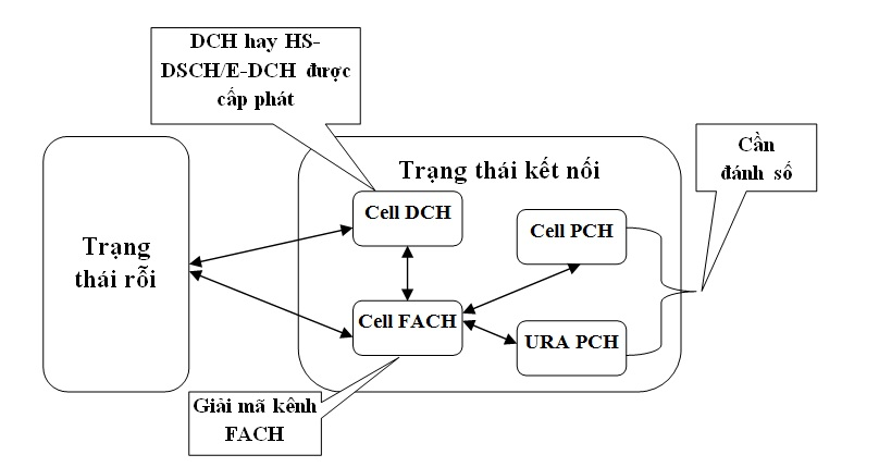 Các trạng thái của RRC trong HSDPA-HSUPA